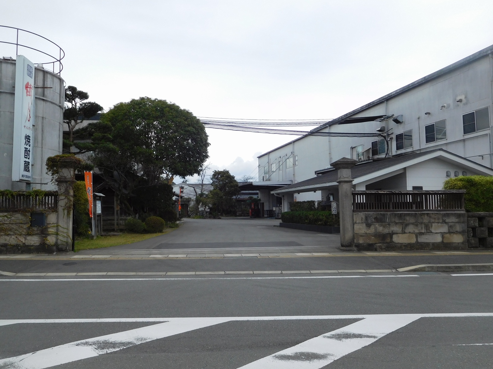 Sengetsu Shuzo Main Office (Shōchū - Hitoyoshi City, Kumamoto Prefecture, Japan)